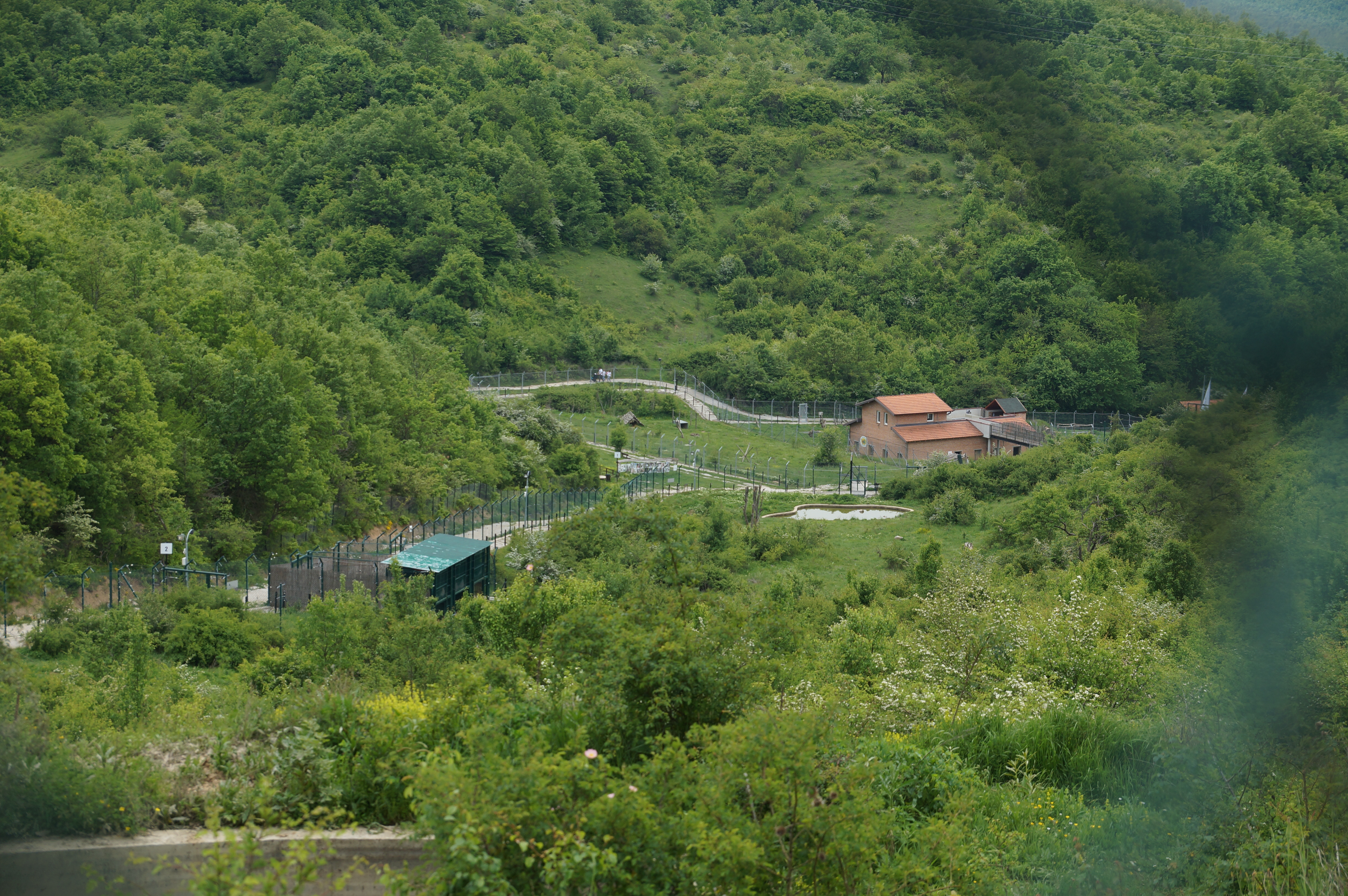 Bear Sanctury in Prishtina